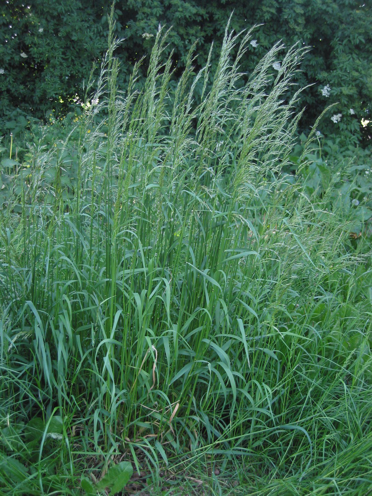 (Glanshaver) plant Arrhenatherum elatius